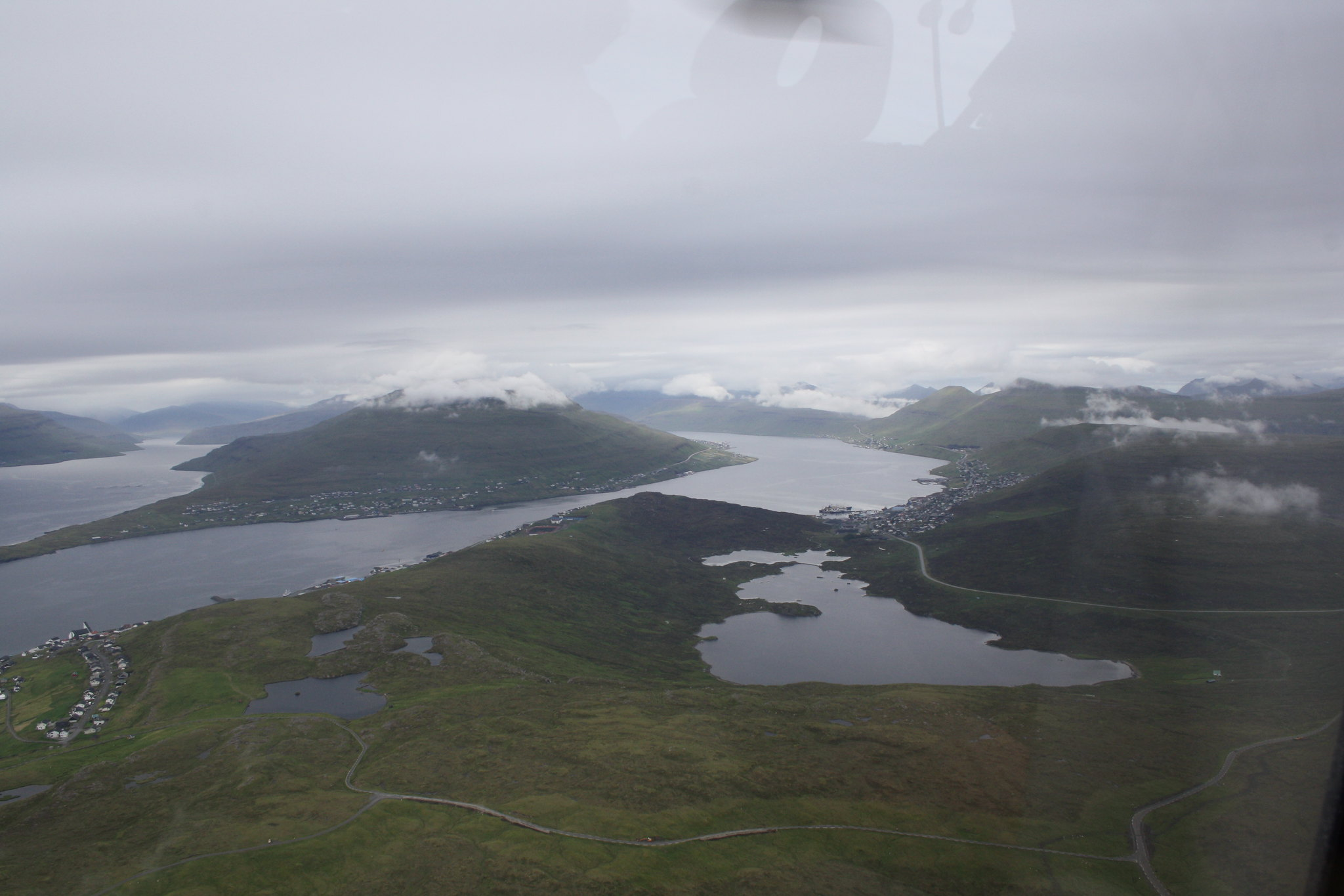 Aerial picture of the Skálafjørður, looking from Toftir (football stadium in the lower left corner) looking north. You can see Toftavatn lake (centre-right) and the villages Strendur, Toftir, Runavík, Saltangará, Glyvrar and Innan Glyvrum. Sundini can be seen on the left side of this image.